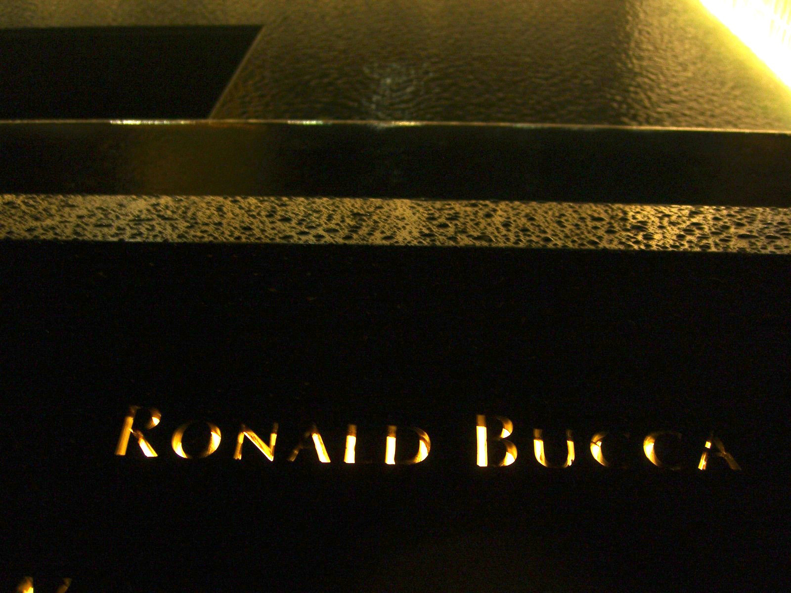 The name of Ronald Paul Bucca is seen among those of other first responders inscribed on bronze panel S-14 of the South Pool of the National September 11 Memorial in Manhattan, on December 6, 2011. This photo was created by Luigi Novi. If you have any questions, you can contact me by sending me an email or User talk:Nightscream